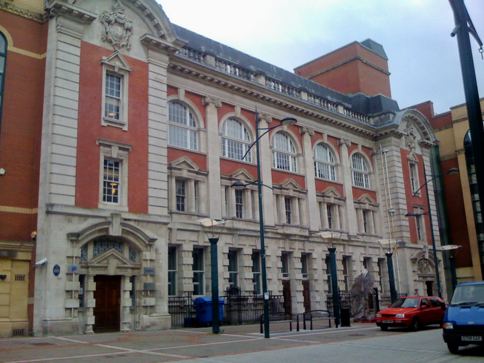 Newport Corn Exchange facade (NOT the 'Coal exchange' as it says in the file name, sorry)